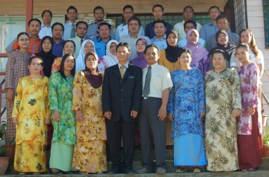 Staffs of SK Langkon